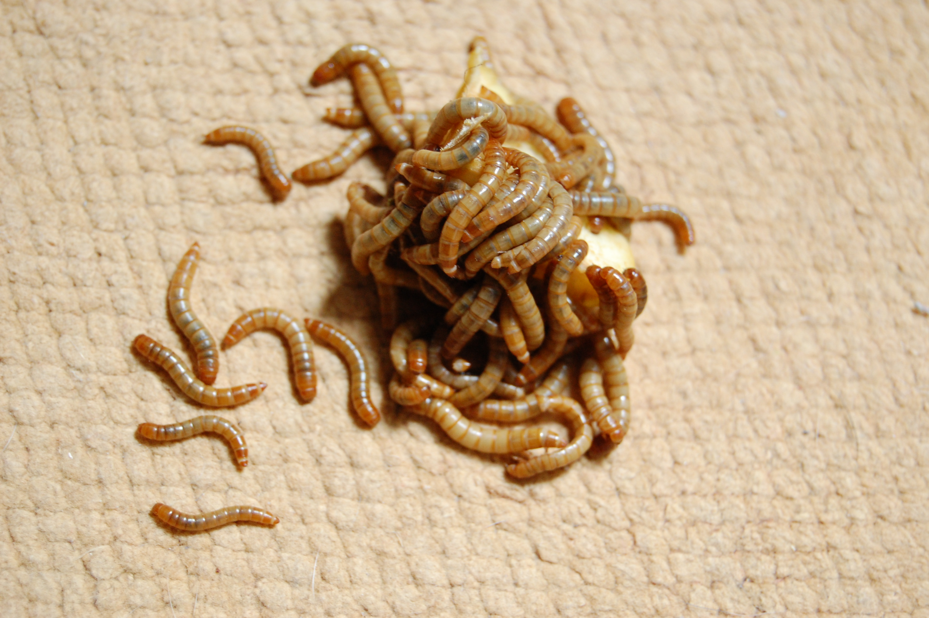 Mealworms (Tenebrio molitor larvae)